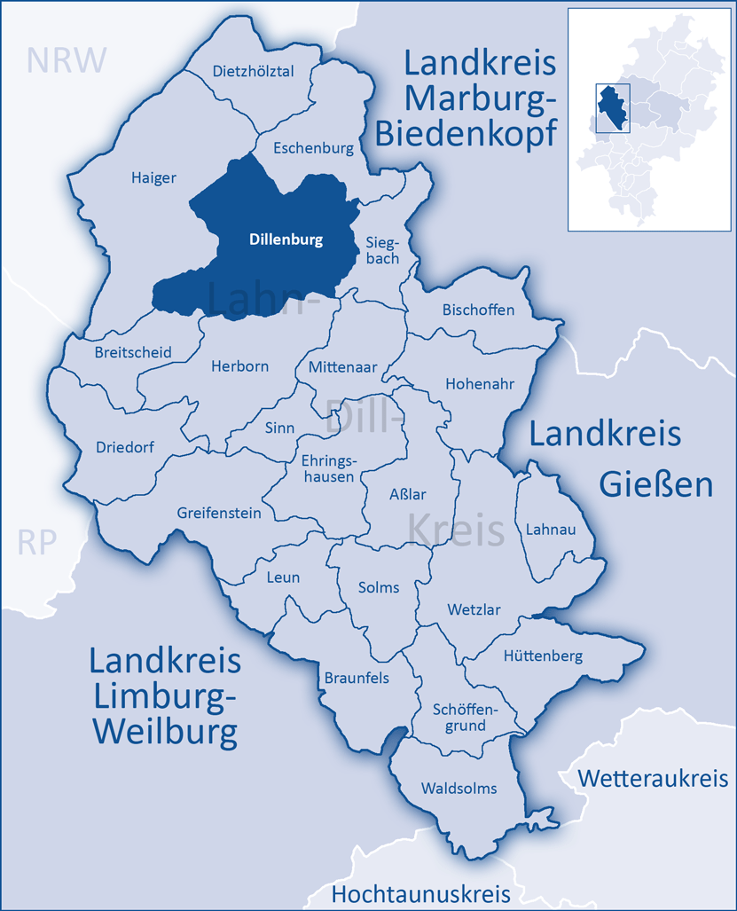 The map shows a district in the area of Lahn-Dill-Kreis